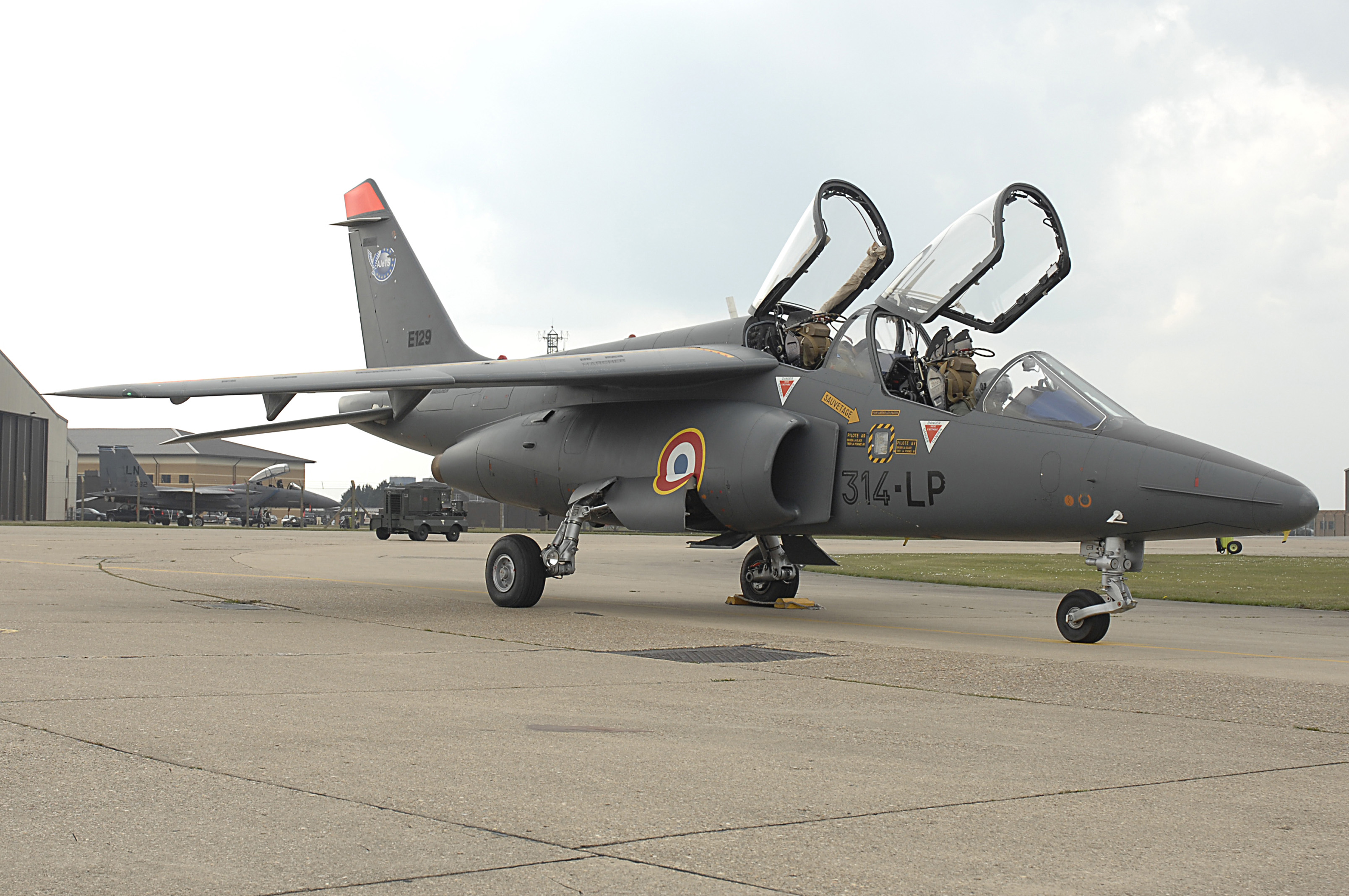 A Dassault Alpha Jet E (314-LP) of the "école de l'Aviation de Chasse" (training squadron) EAC 314 of the Armee de'l Air (French Air Force) deprepares for take-off from Royal Air Force airfield Lakenheath, Suffolk (UK), on 16 April 2008. The French aircraft was flown by a Belgian crew from of Beauvechain air base, Belgium. RAF Lakenheath is home of the USAF 48th Fighter Wing, equipped with the McDonnell Douglas F-15E Strike Eagle. The F-15E-52-MC s/n 91-0332 is visible in the background.